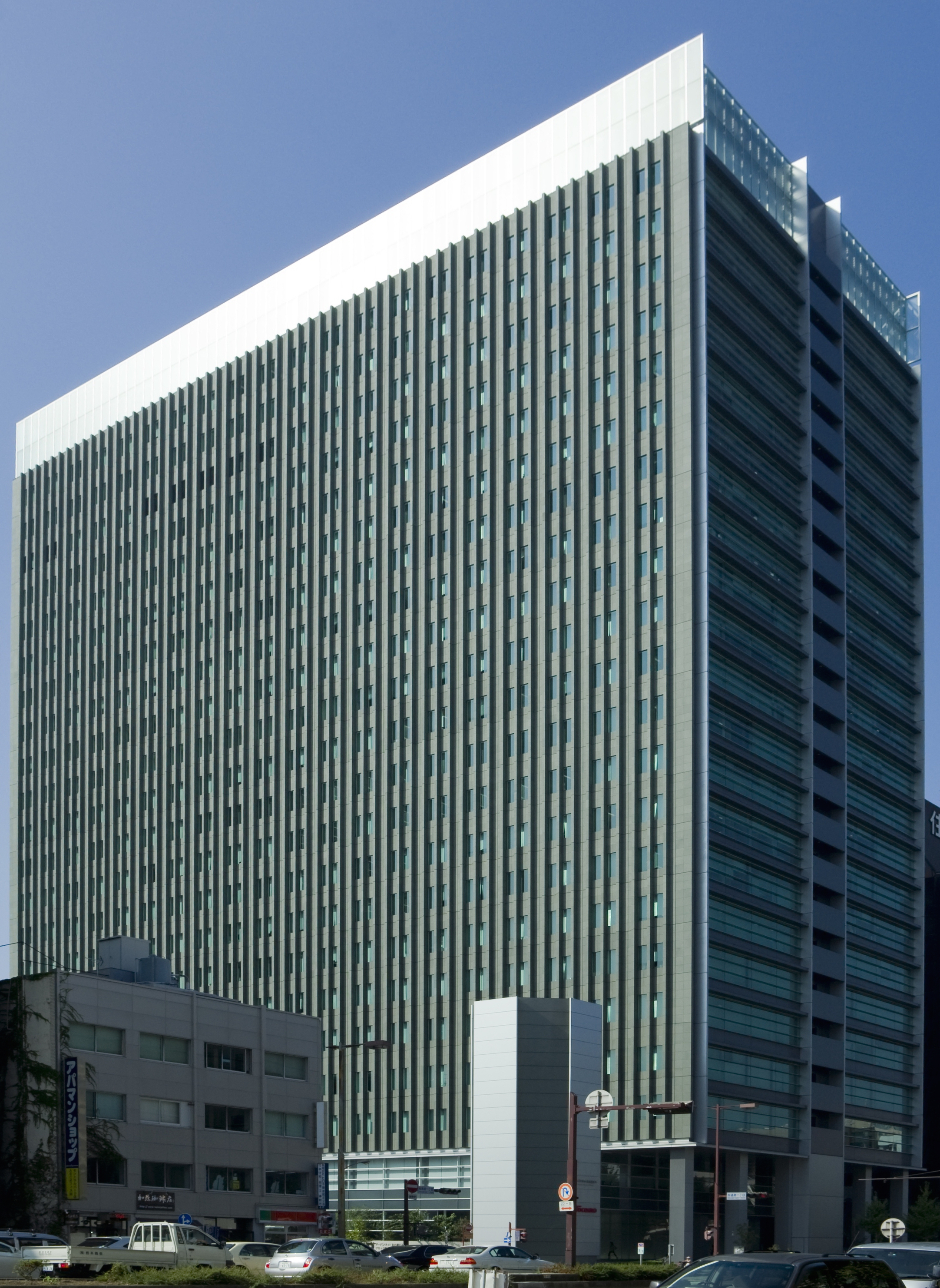 Urbannet Nagoya Building in Nagoya, Japan